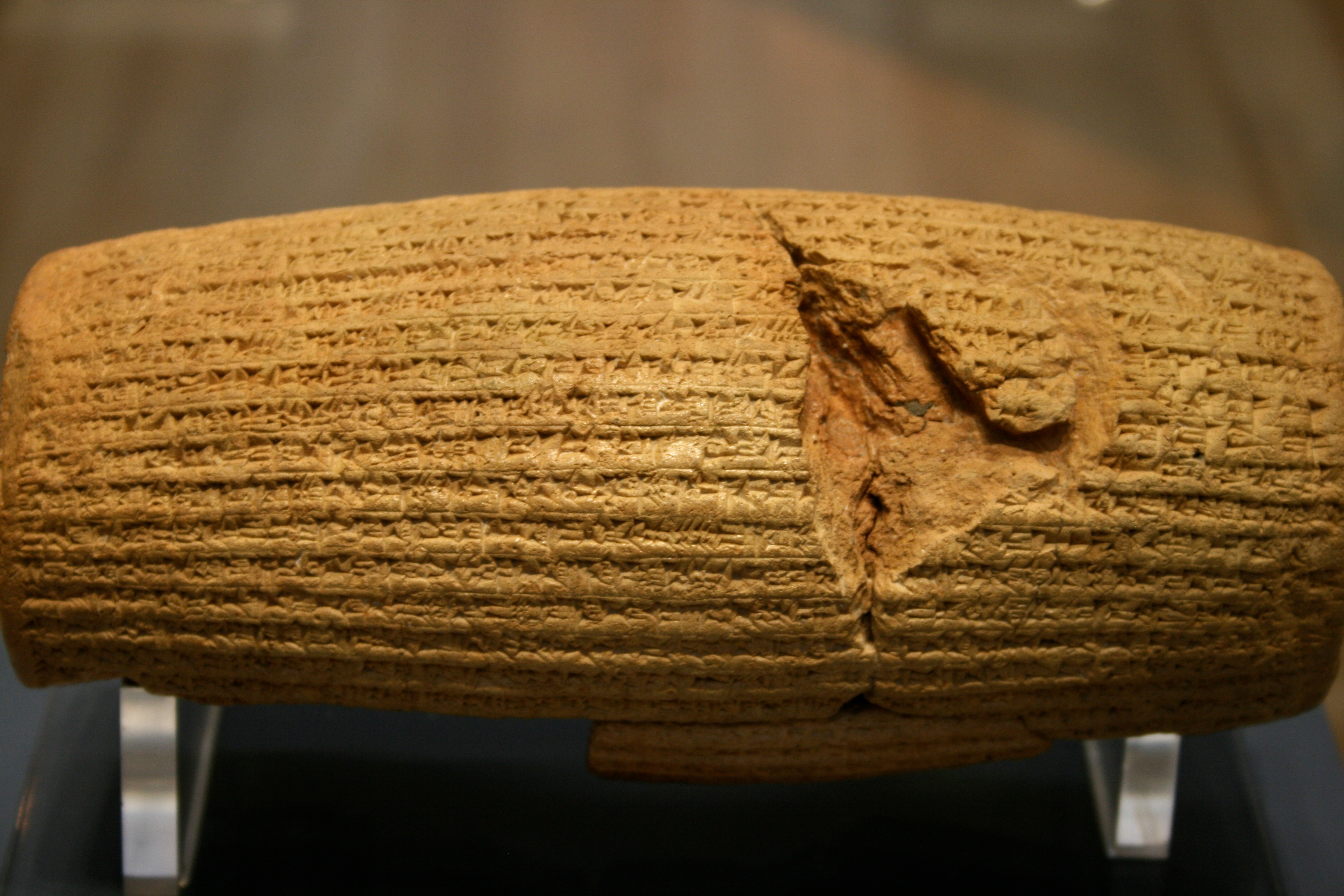 Cyrus cylinder in the British Museum.